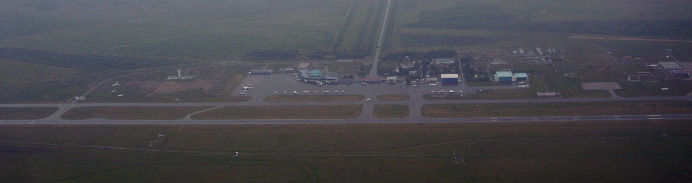 Nursultan Nazarbayev International Airport. View from top.